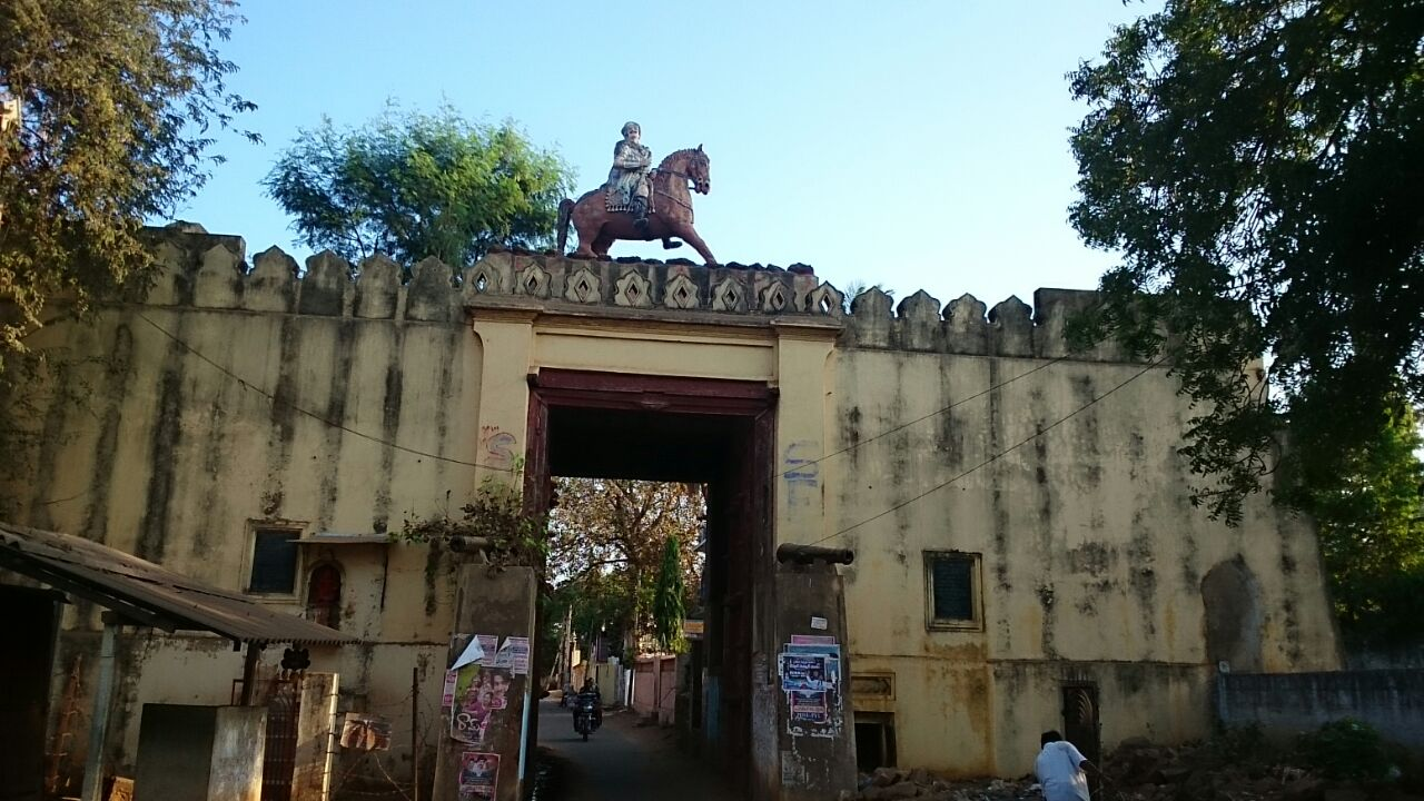 Nuzvid Fort Gate North and South situated in Sy.No.463